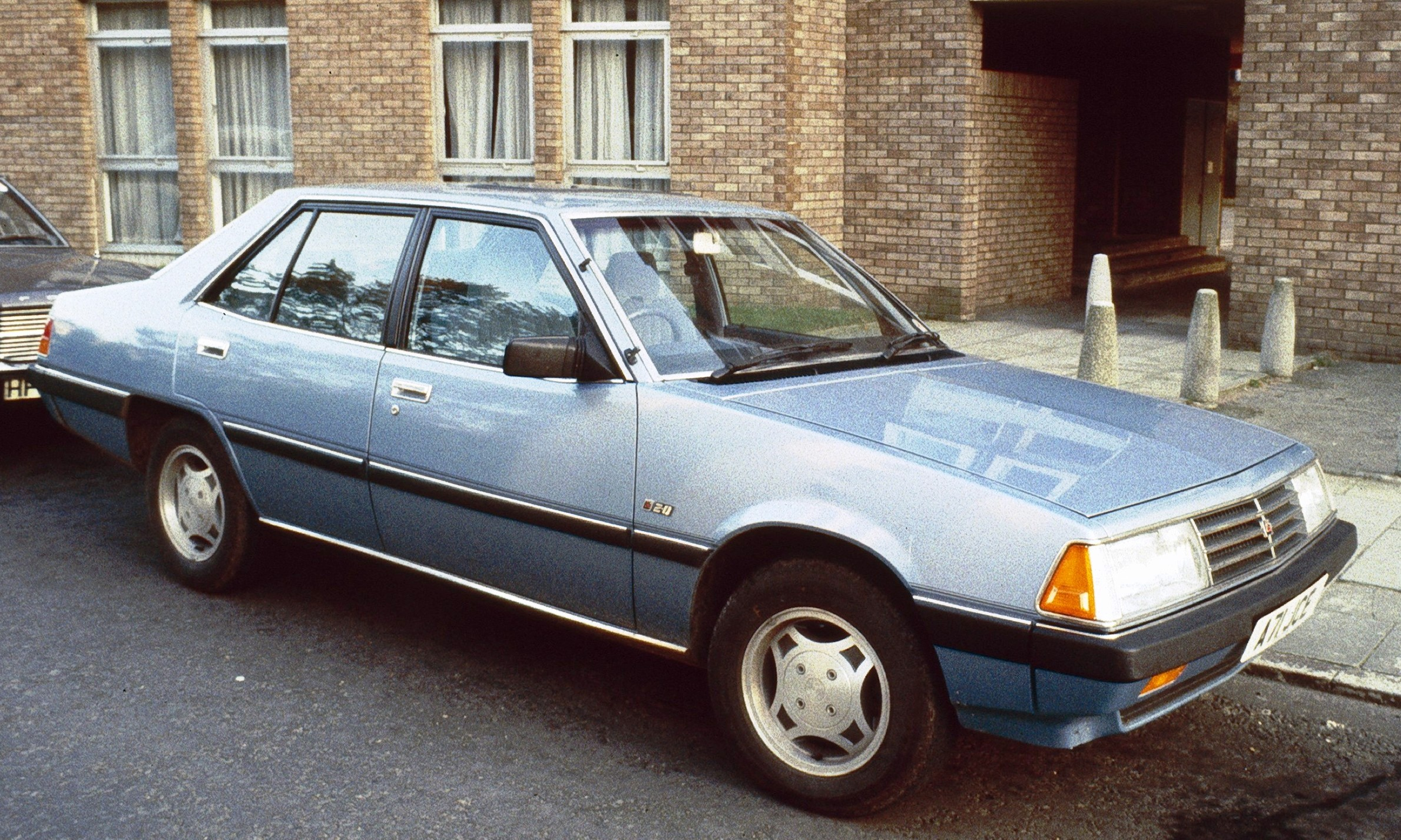 Mitsubishi Sigma, badged as a Lonsdale 2.0 for the UK market